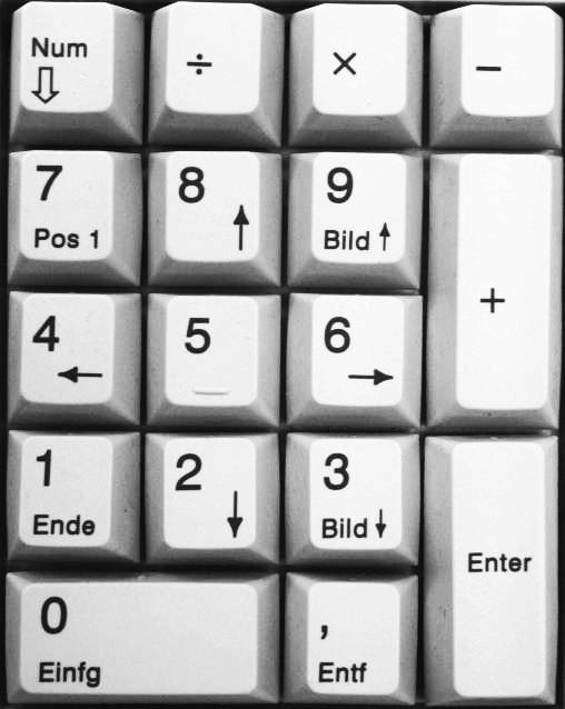 Numeric section of a German keyboard